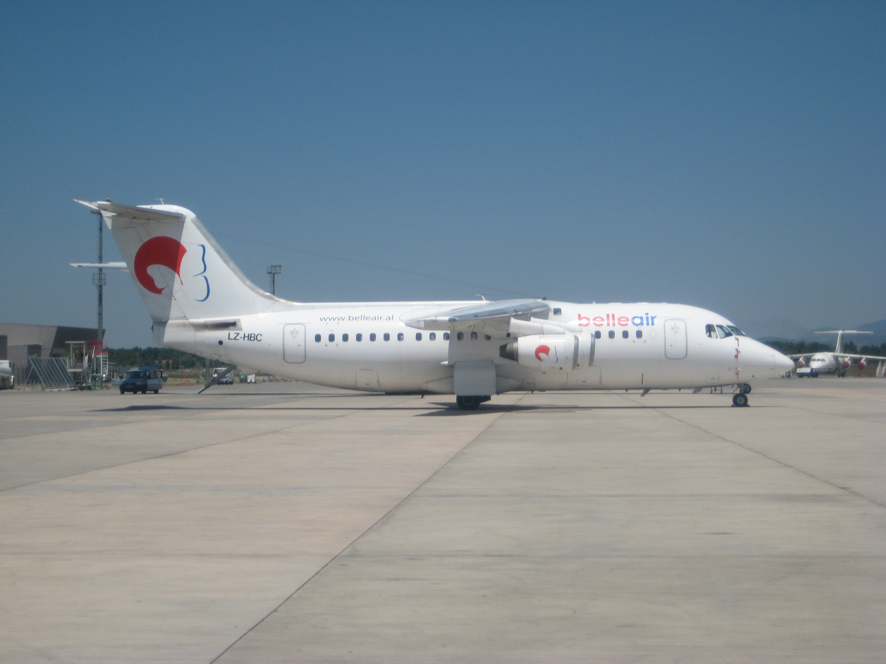 British Aerospace BAe 146 of Albanian air carrier Belle Air at Tirana's Rinas Mother Teresa Airport